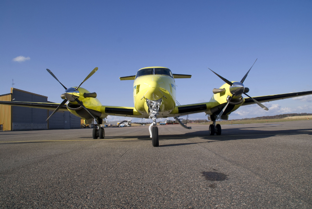 Beechcraft Super King Air plane, operated by Svensk Flygambulans AB